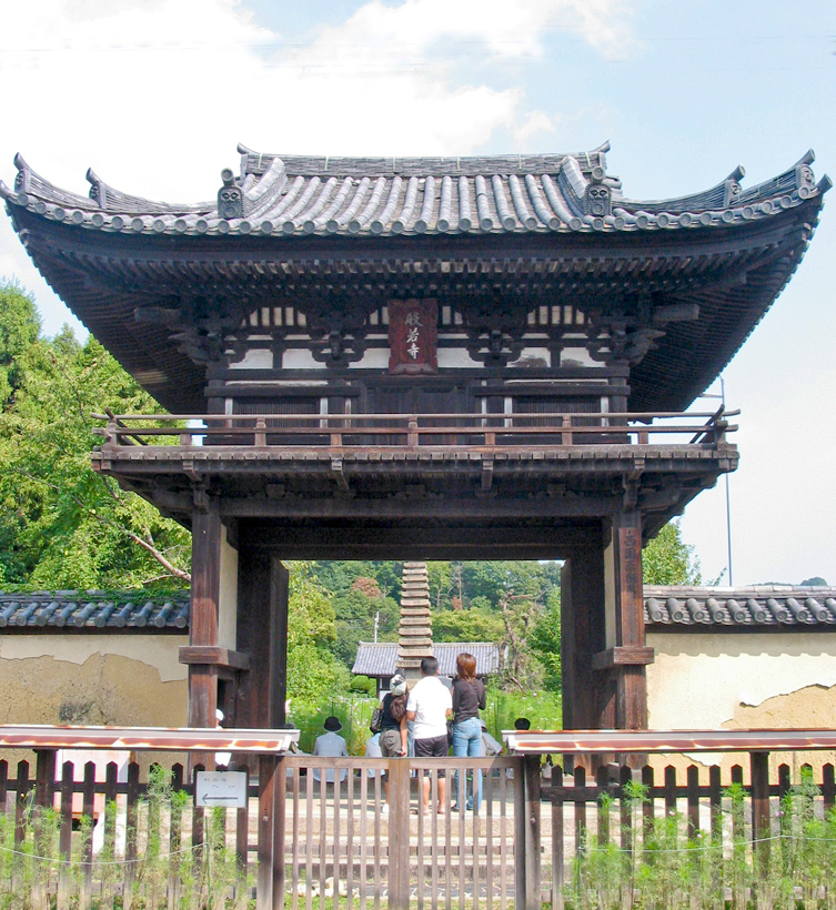 Rōmon of Hannya-ji (National Treasure of Japan, built in Kamakura period) Hannyaji Nara-City Nara Pref., Japan.